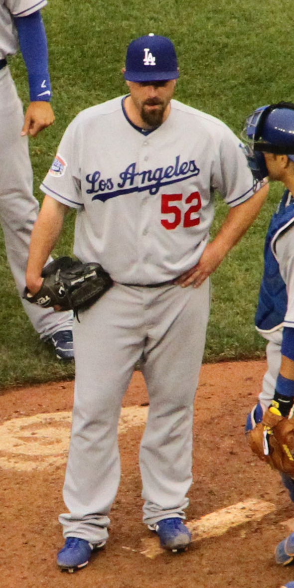 George Sherrill